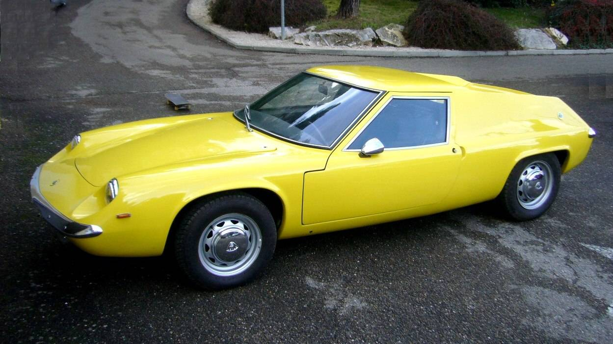 Lotus Europe (type 46) Series 1, 1967